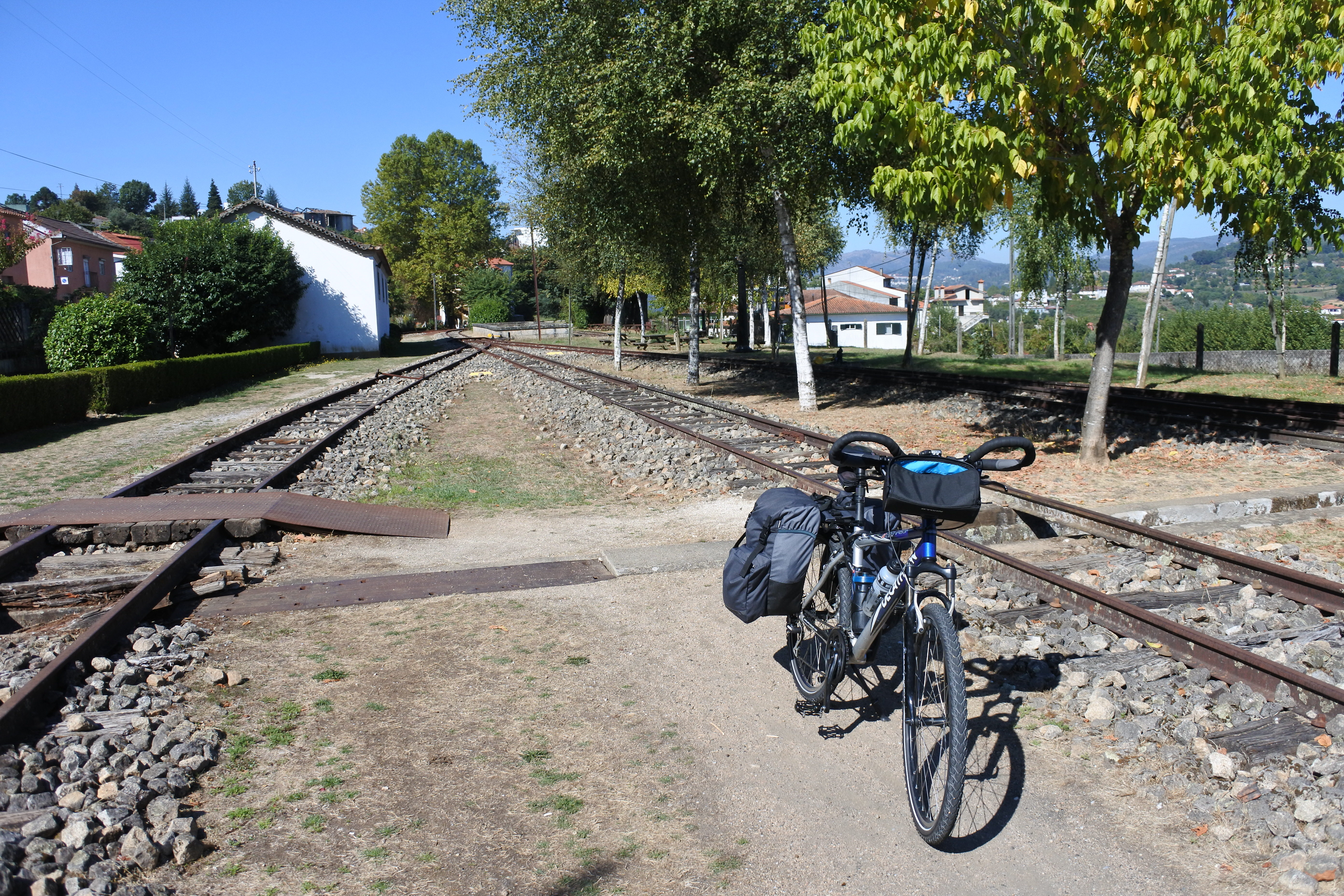 Old train station of Arco de Baúlhe, the start of Arco de Baúlhe - Amarante cyclepath, also known as "Tamega cyclepath", since it mostly follows the valley of the Tamega river.